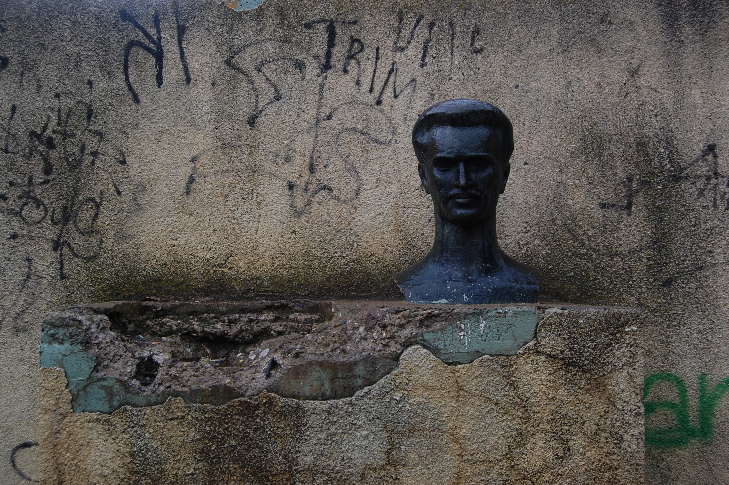 Busts of Ramiz Sadiku at City Park, Pristina, Kosovo, on a grey, wet day. On the right of it stood the bust of Boro Vukmirovic until it was removed in 1999. Used here